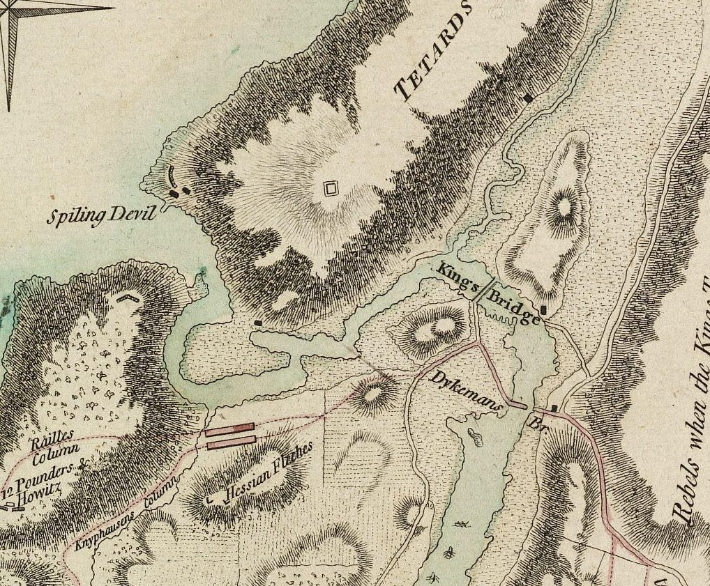 Excerpt from the Battle Of Fort Washington Map by Sauthier showing original course of Spuyten Duyvil Creek, and locations of King's Bridge, Dyckman's Bridge, and Marble Hill area then part of Manhattan